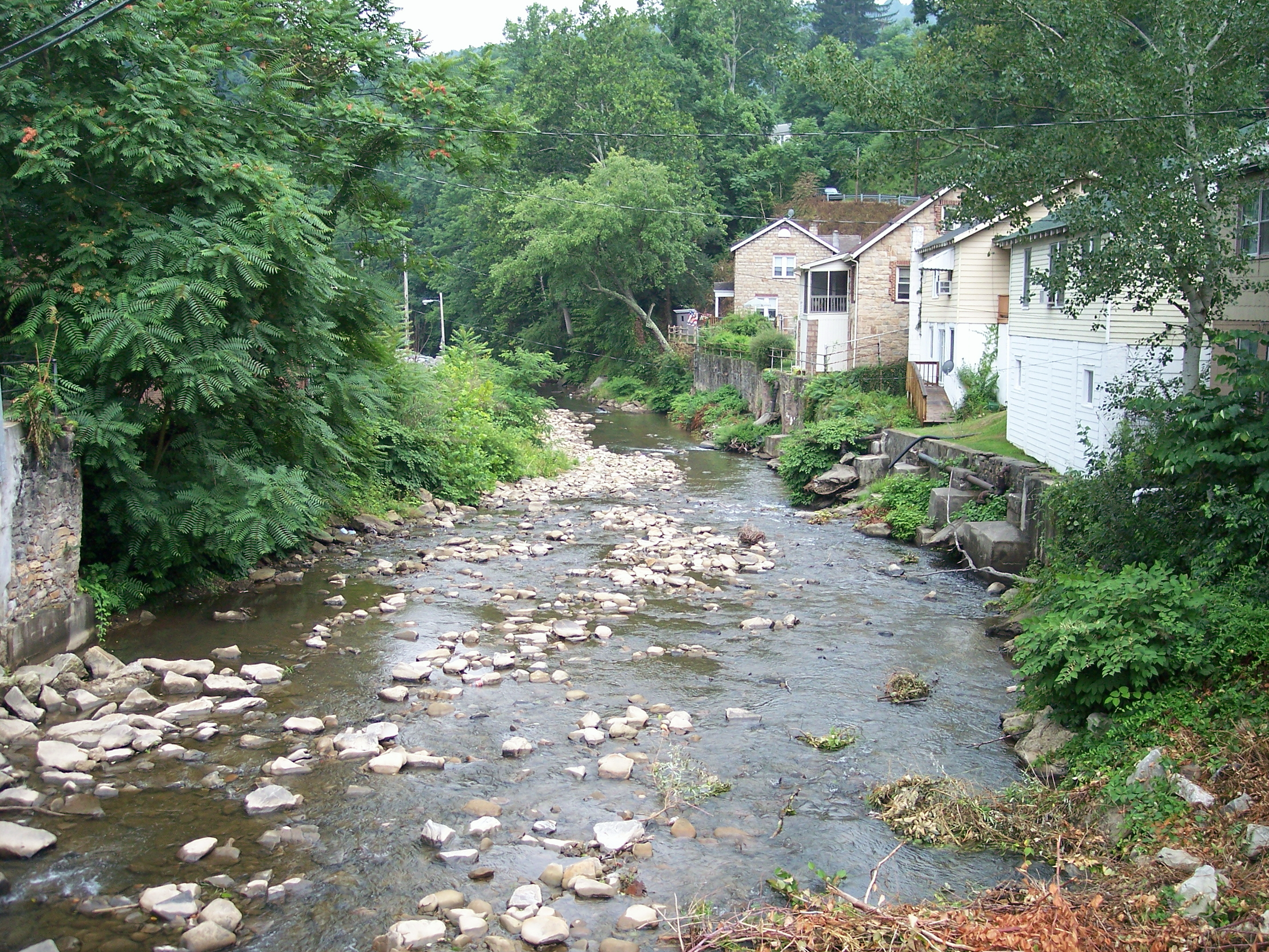 The Slab Fork as viewed downstream from Moran Avenue in Mullens, West Virginia